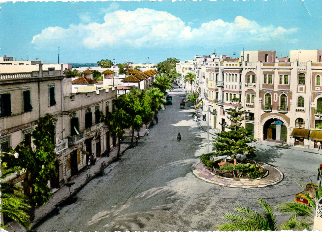 Maydan al-Shajara - Eshagara Square, downtown Benghazi, Libya - in the late 1950s.